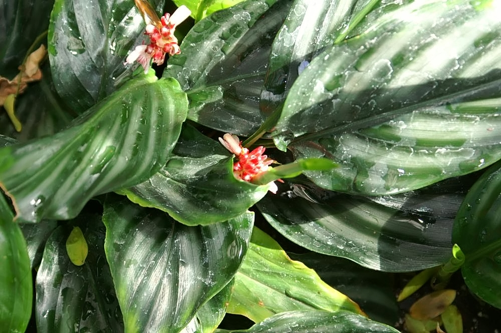 Location taken: United States Botanic Garden. Names: Zingiber officinale Roscoe, Aale, Ada, Adhu, Adi, Adrak, Adraka, Adrakada, Afu, Akakaduro, Akakaduru, āle, Alha, Aliah, Aliah (Indonesia), Alla, Allaama (Allam), Allam, Allamu, Allamu (Green Ginger), Allamu Cĕṭṭu, Allamu Chettu, Anchoas (Mexico), Ardraka, Ārstniecības Ingvers, Atuja, Awirinri, Cây Gùng, Can Khương, Canton, Canton Ginger, Cencer, Chinjo, Chitta, Chnay, Common Ginger, Cooking Ginger, Crni Ingver, Culinary Ginger, Dinnsear, Djahe, Ďumbier, Ďumbier (korenie), Ďumbier Lekársky, Dumbír, Dzhindzhifil, Džindžifil, Echter Ingwer, Edible Ginger, Engifer, Fute Giya, Gamug, Garden Ginger, Gember, Gengibre, Gengivre, Geon-Gang, Ghimbir, Gin, Gingebre, Gingembre, Gingembre Commun, Gingembre Officinal, Gingembre Traditionnel, Ginger, Gingibar, Giya, Gng, Gojabghbegh, Green Ginger (Fresh Root), Gừng, Gyömbér, Gyin Sein, Gyömbér, Halia, Haliya, Haliya Merah, Harilik Ingver, Harilik Ingwer, Imber, Imbieras, Imbir, Imbir lekarski, Imbir', Imbor, Imbyr, Inbwer, Inchi, Iñci, Ingee, Ingee), Ingefær